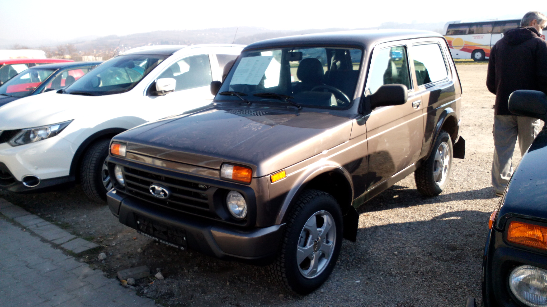 Brand new Lada Niva Urban at Kragujevac Car Show 2016